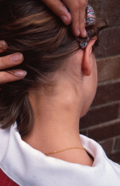 Tick attached behind ear. Note swollen lymph node on neck below.